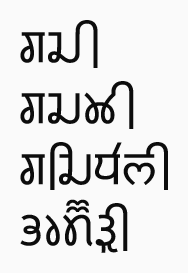 specimen